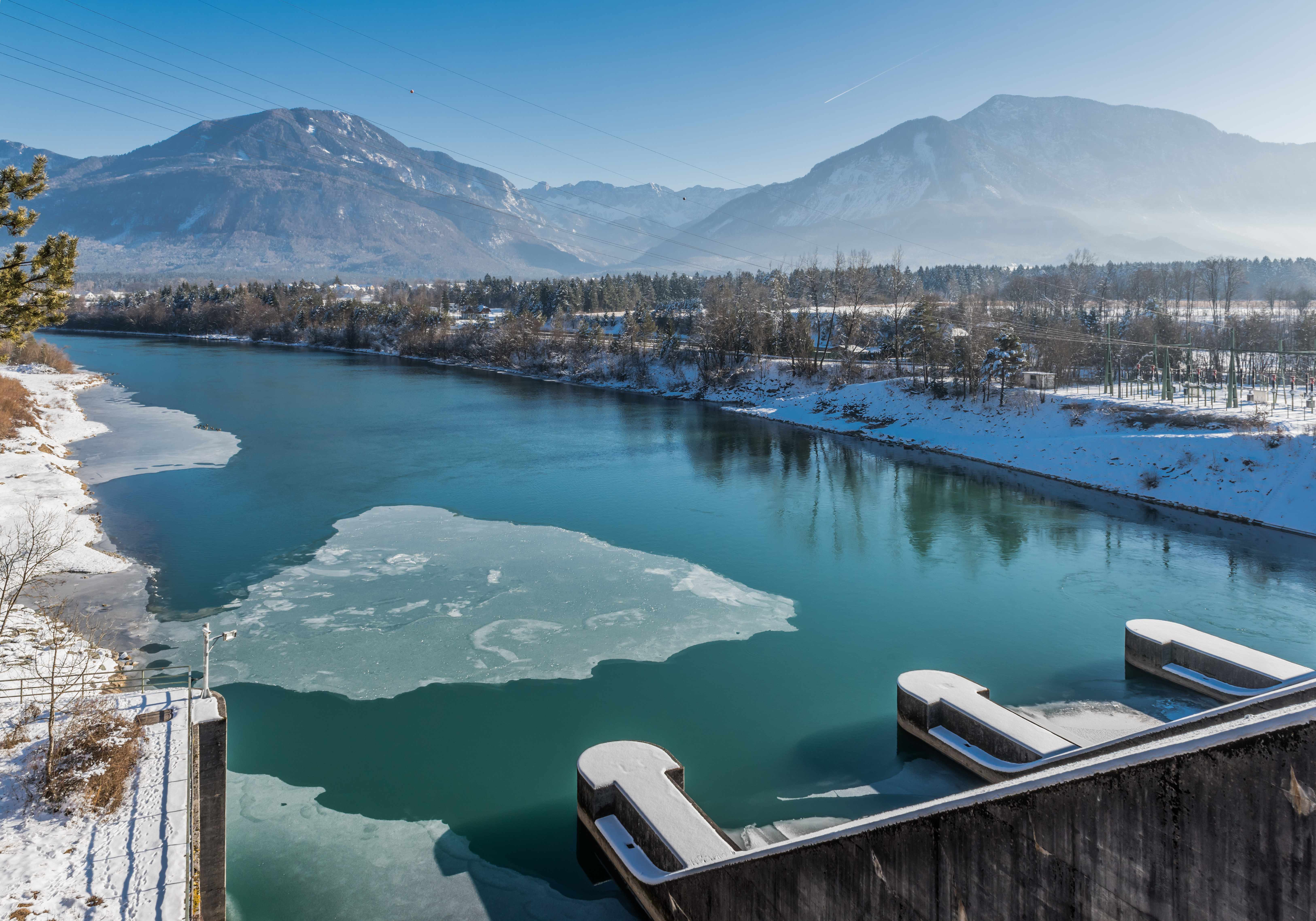 River Drava downstream the hydroelectric power plant in Ressnig, municipality Ferlach, district Klagenfurt Land, Carinthia, Austria, EU